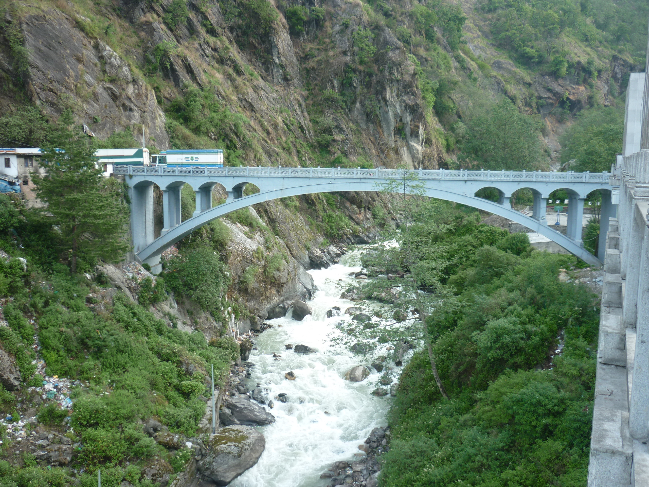 The Friendship Bridge connecting China, on the right, with Nepal, on the left. What a difference a river can make!